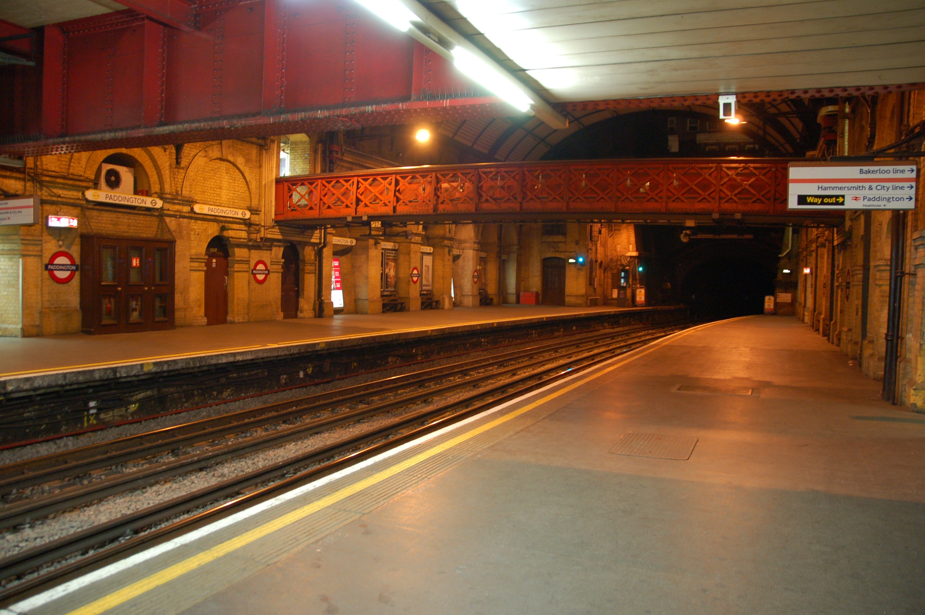 Paddington tube station, platform of District and City lines, London, UK